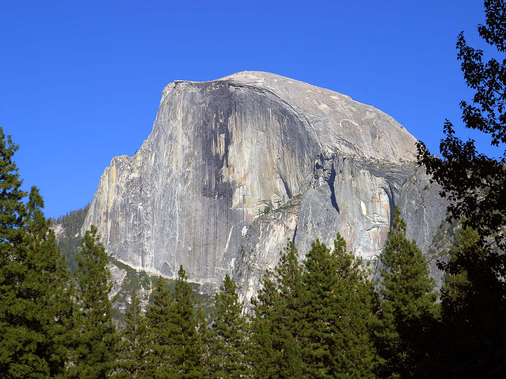 Half Dome in Yosemite National Park - 2004-09-05 - from [1]